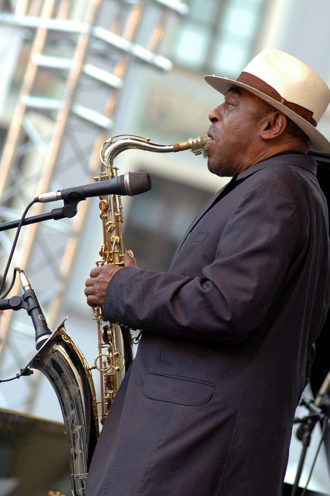 Archie Shepp during a free open-air concert in The Old Town of Warsawa, Poland. Summer 2008.